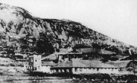 Yan'an Academy of Natural Sciences